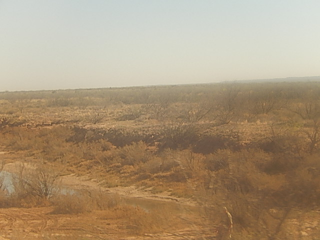 I took photo at Horsehead Crossing, TX, with Nikon camera.